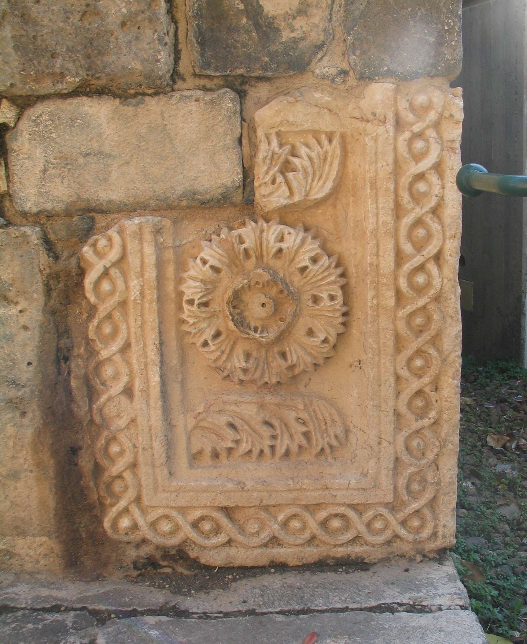 Tiberias, Israel - The crusader gate.